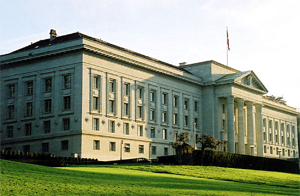 Federal Supreme Court of Switzerland